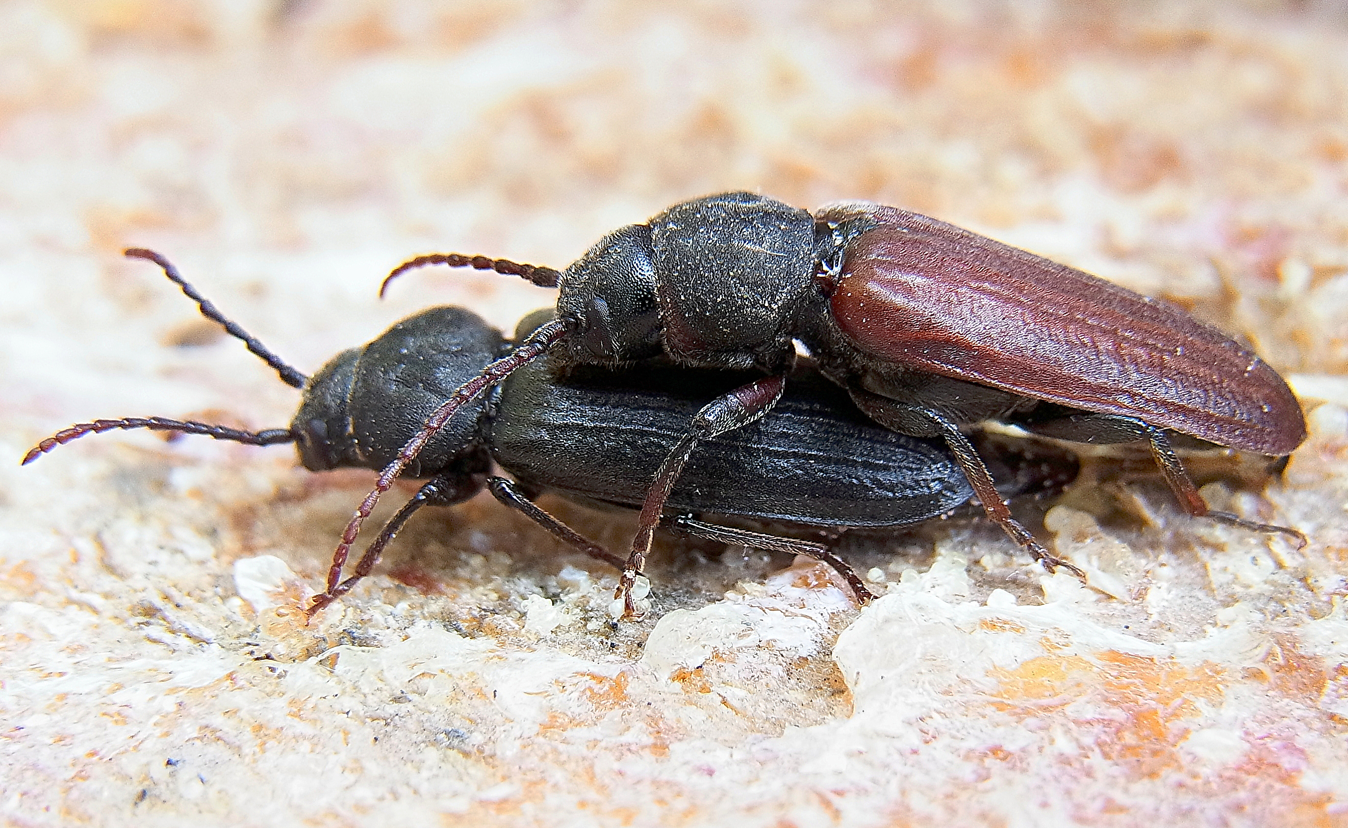 Asemum striatum, couple from Southern Hungary near Ásotthalom at 2012-05-27